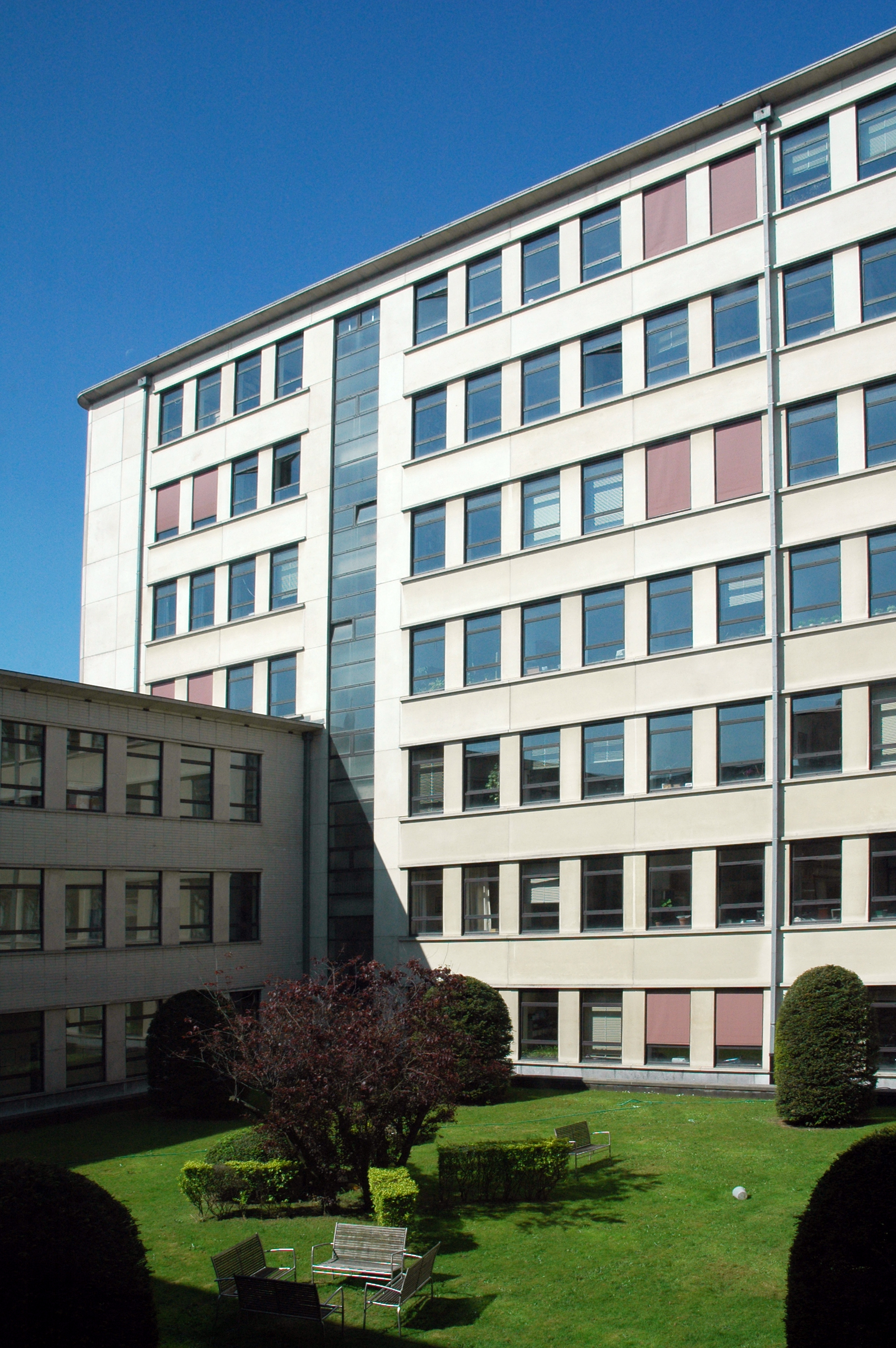 The Blandijn in Ghent, Belgium: wing at the Sint-Amandstraat with the Blandijn courtyard in view.